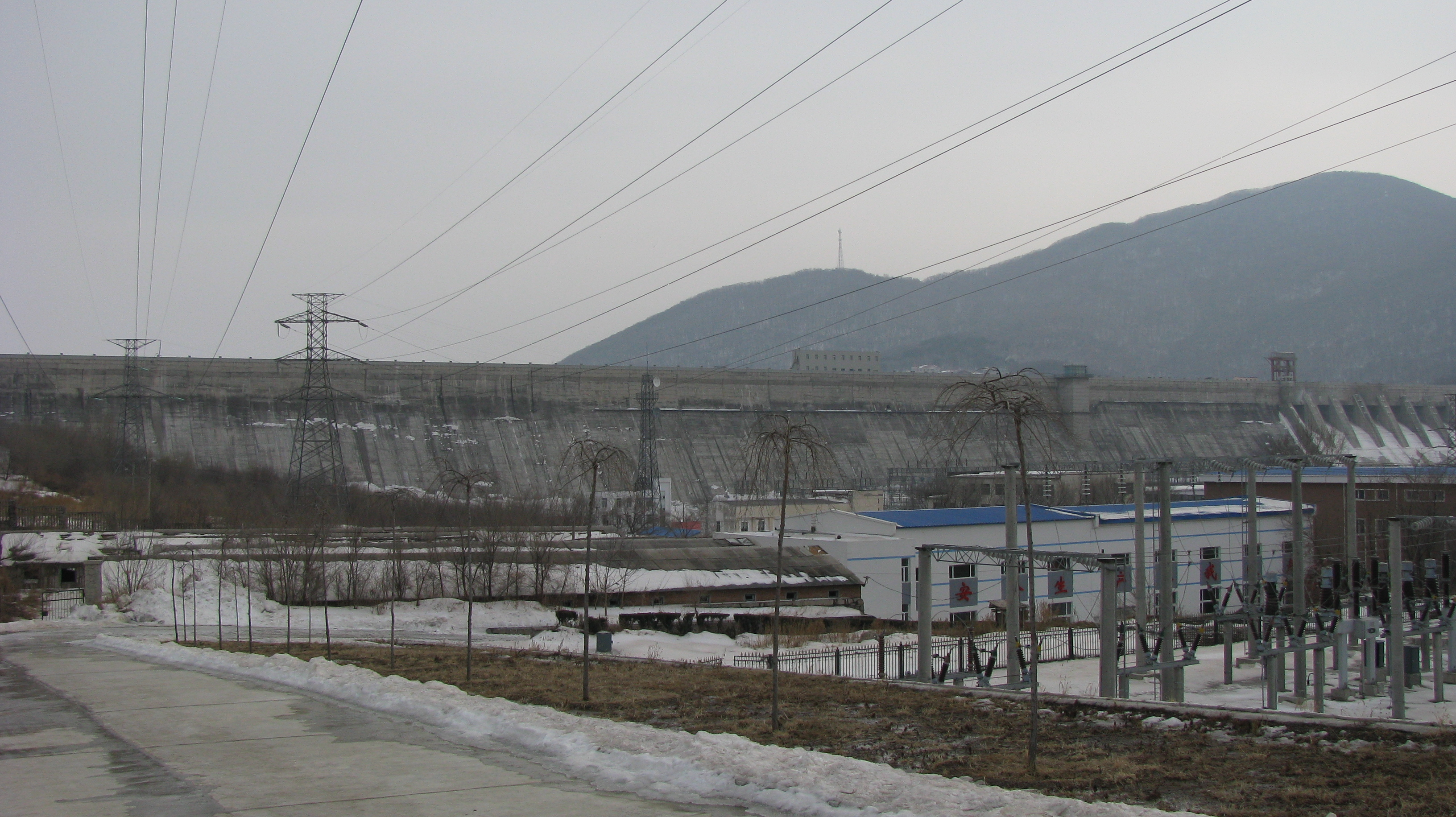 View of the Fengman Dam on the Second Songhua River in Jilin, China.